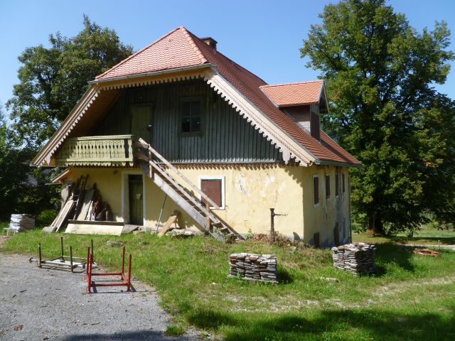 Schmiedhäusl, part of Guggenthal manor, municipality of Koppl, Salzburg state, Austria